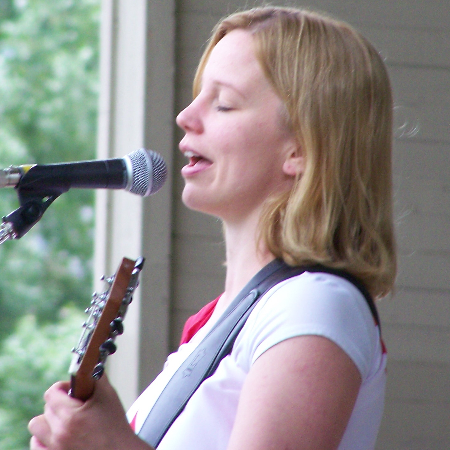 Heather Blush performing at the free Canada Day 2007 concert on the main stage at Prince's Island in Calgary, Alberta, Canada.